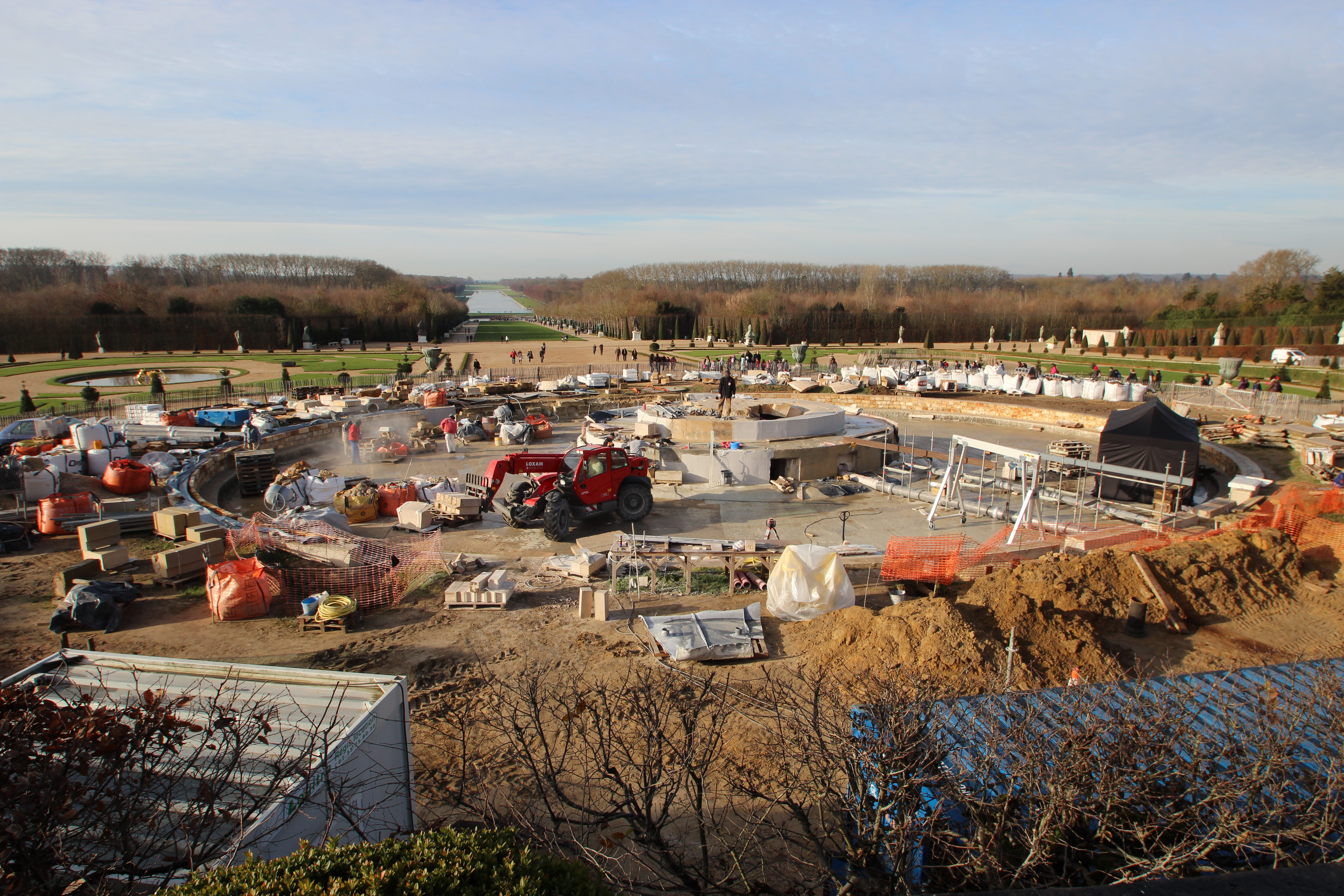 Laying marbles at the Bassin de Latone (Latona Fountain) in the park of the Palace of Versailles, France